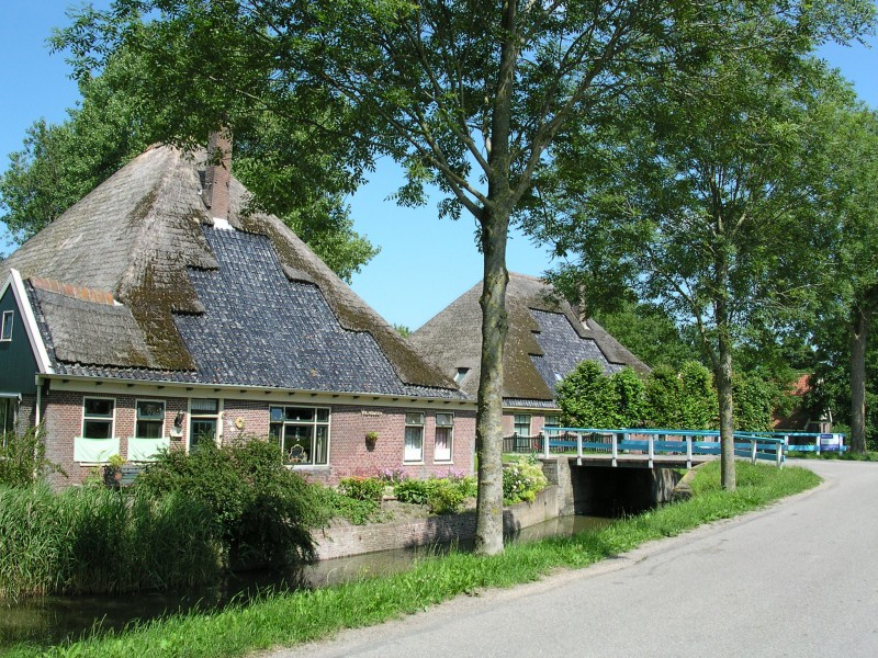 Stolpboerderijen in Barsingerhorn. Farms in the town of Barsingerhorn